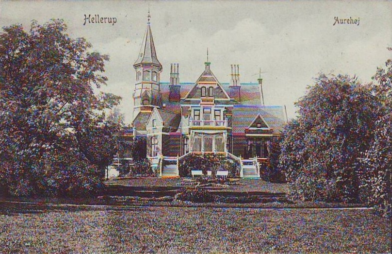 Postcard by P. Alstrups Kunstforlag depicting the Villa Aurehøj in Hellerup, built 1884 to a design by Johan Schrøder. 1908, No: 9163.